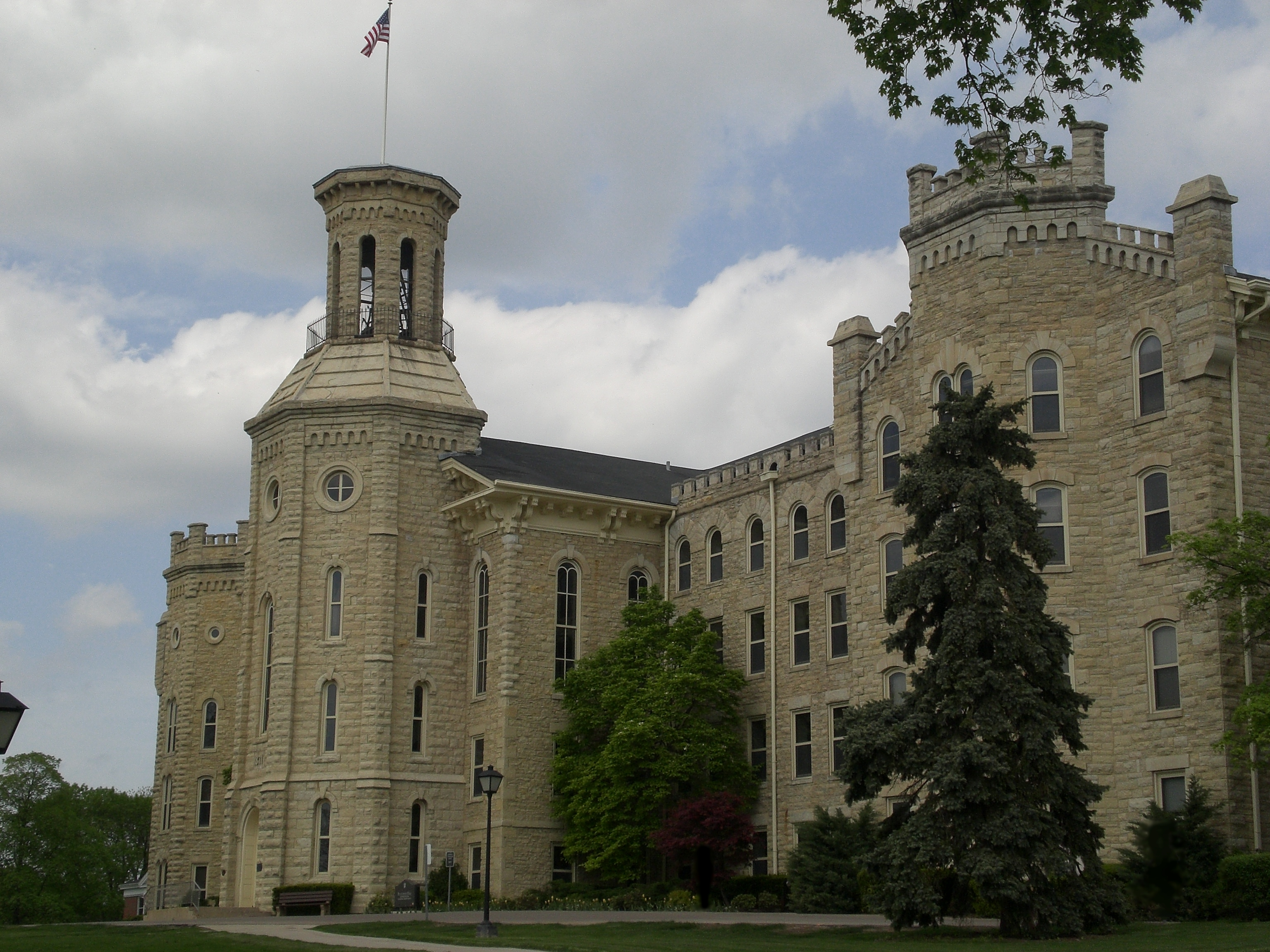 A view of Blanchard Hall in Wheaton College